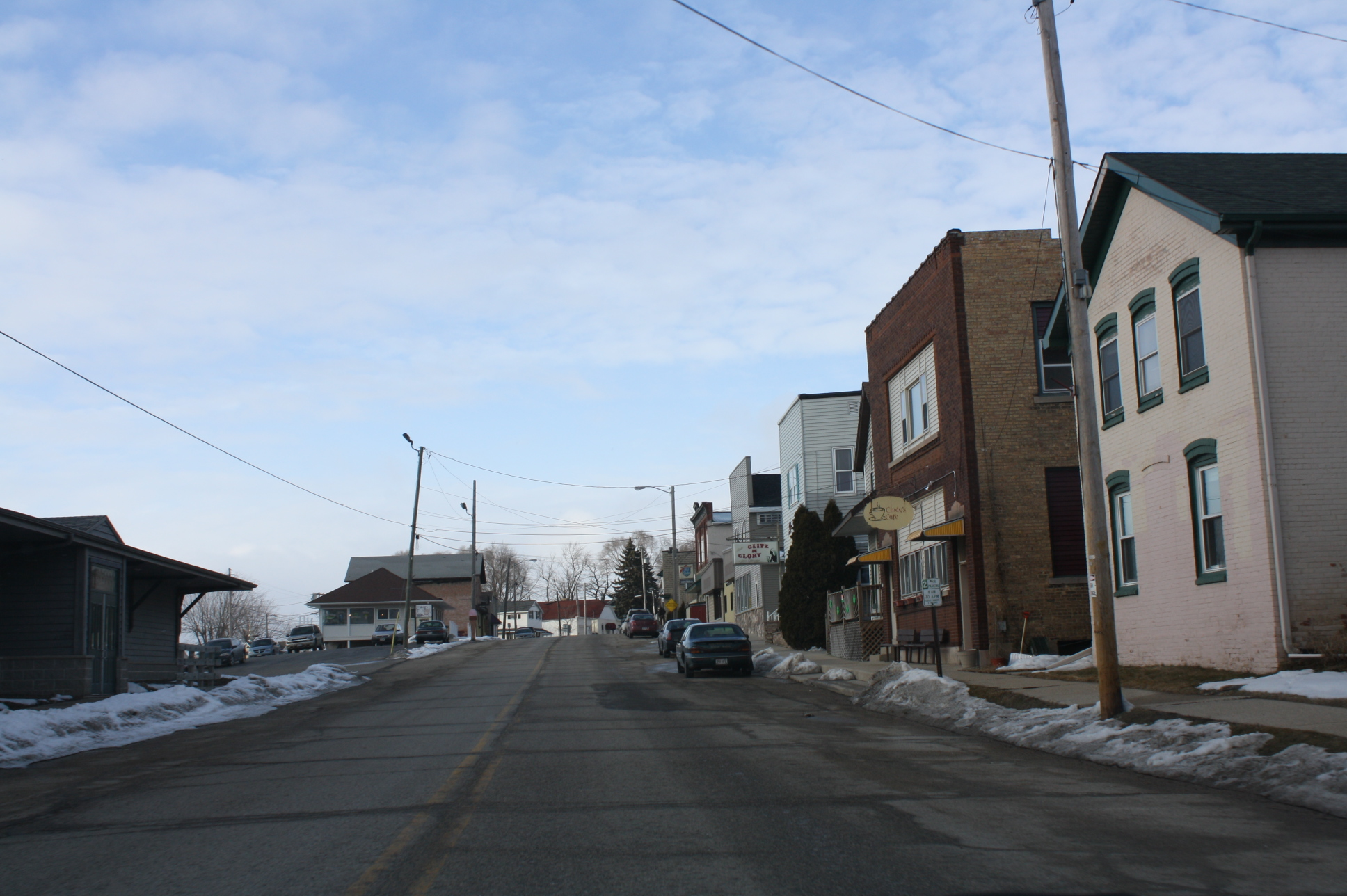 Downtown in the unincorporated community of Iron Ridge, Wisconsin).